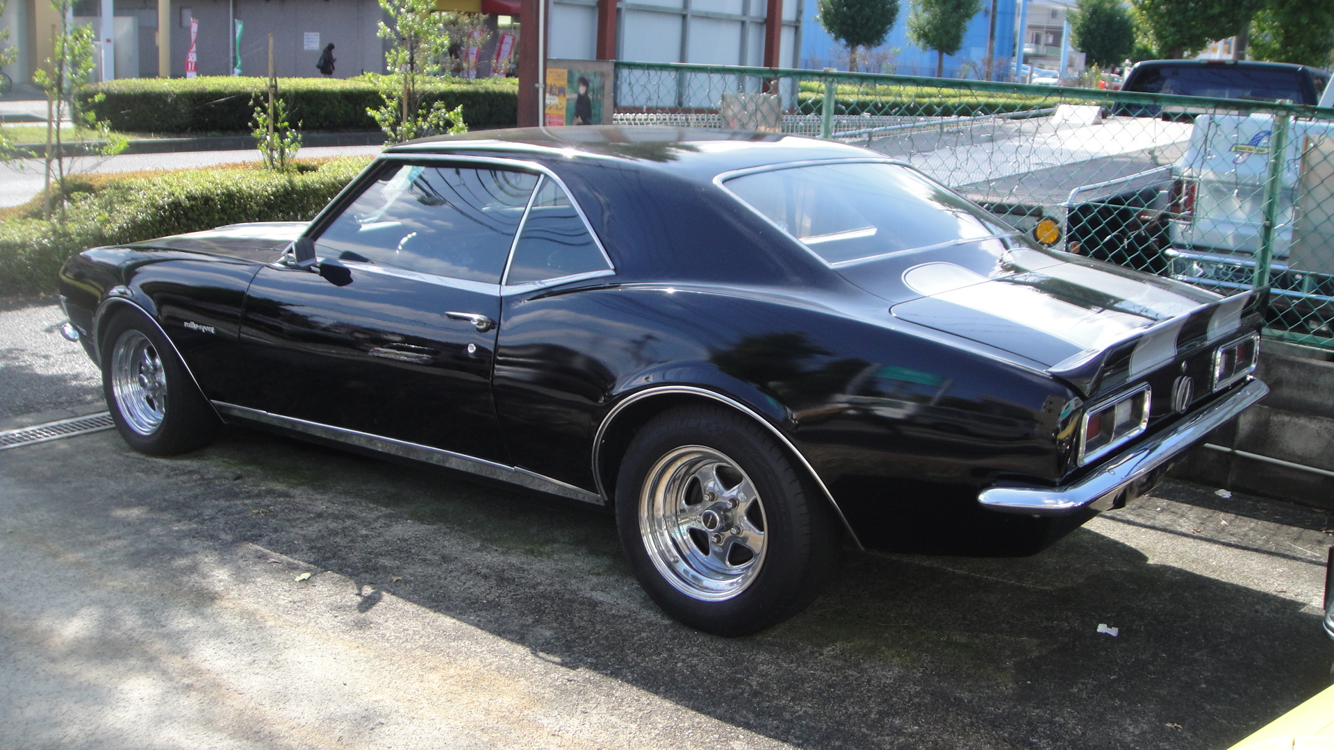 Chevrolet Camaro first Generation front